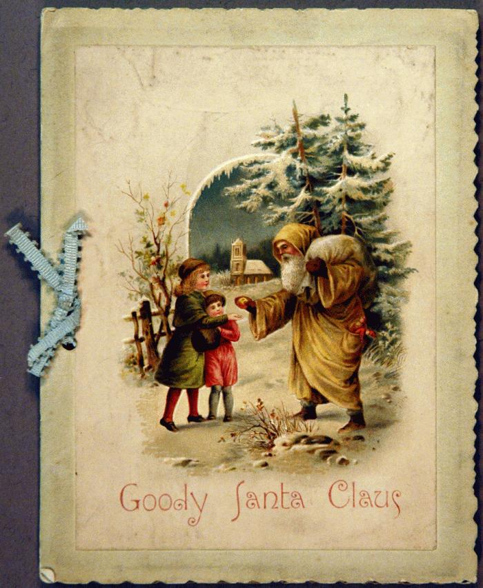 Cover of "Goody Santa Claus" dated 1889. Public domain.